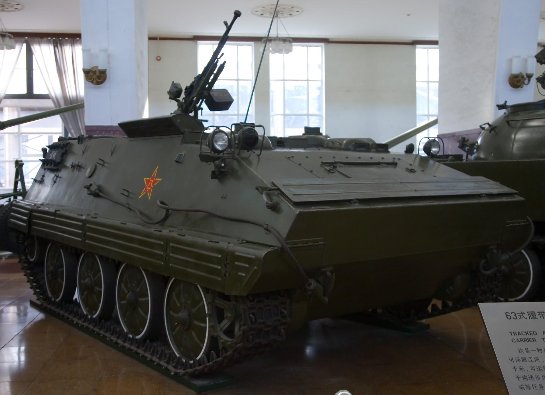 A Chinese Type 63 APC at the Beijing Military Museum from the front